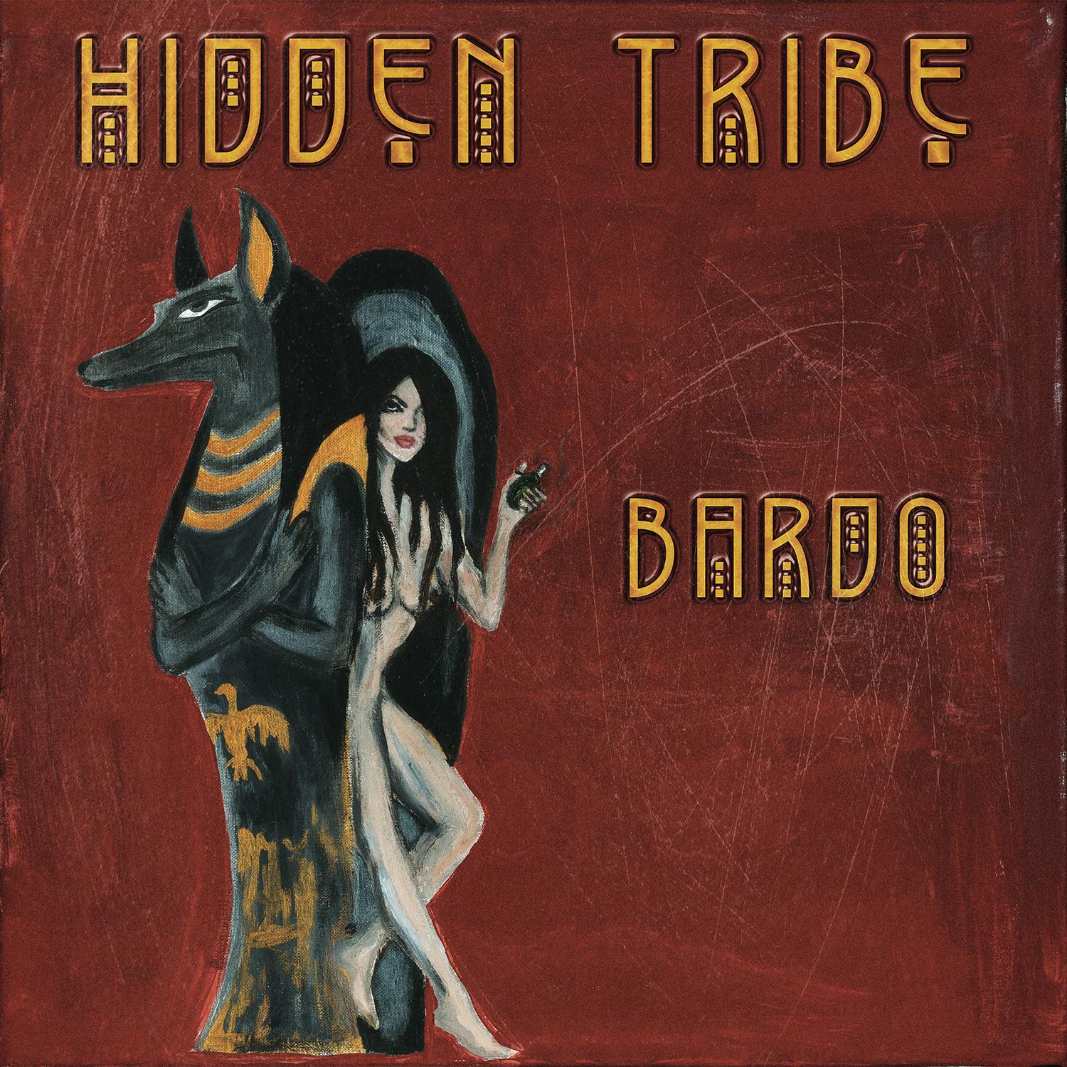 Hidden Tribe - Bardo EP (Cover)